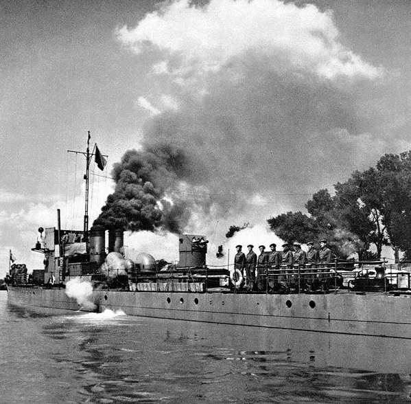 President Masaryk patrol boat was the largest ship of the Czechoslovak river fleet in 1930s.